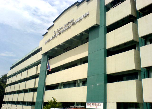 Far Eastern University Medical Center Far Eastern University - Nicanor Reyes Medical Foundation, Philippines